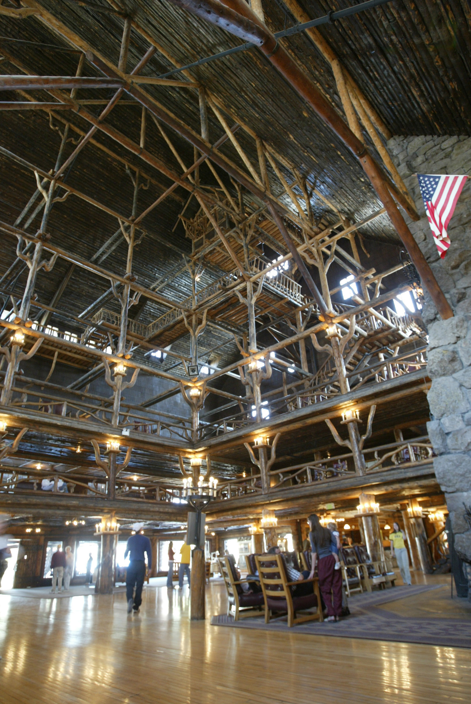 Old Faithful Inn interior wide angle view, Yellowstone National Park, USA